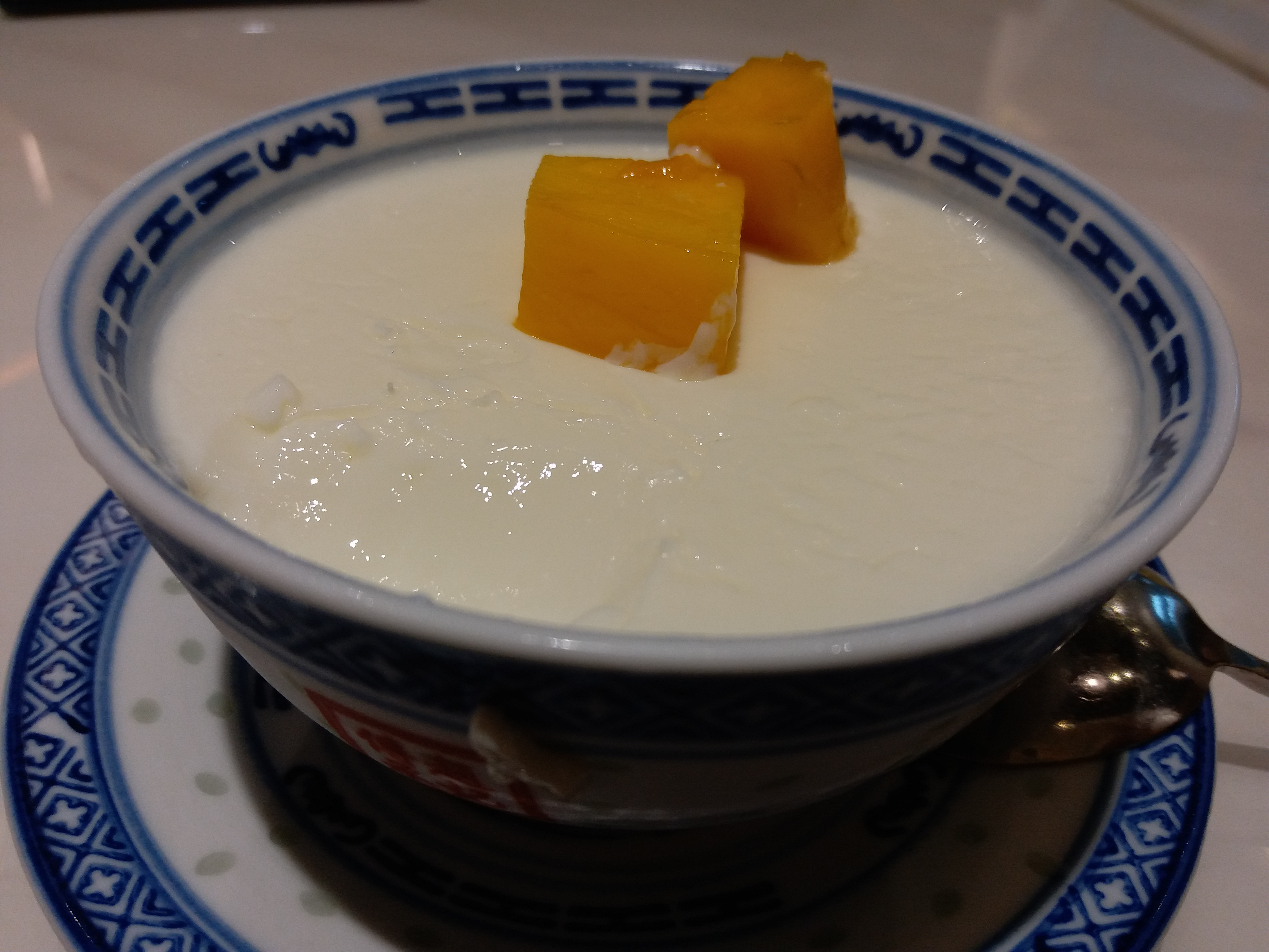 This photo has been taken in the country: China